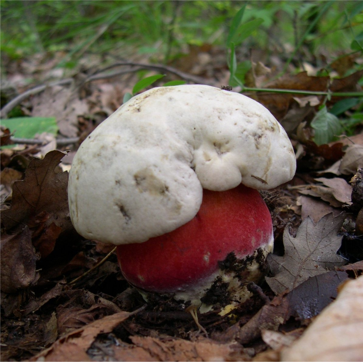 Boletus satanas . Other Photos and descriptions: (1, english:) . (2, french:) . (3, german:) .